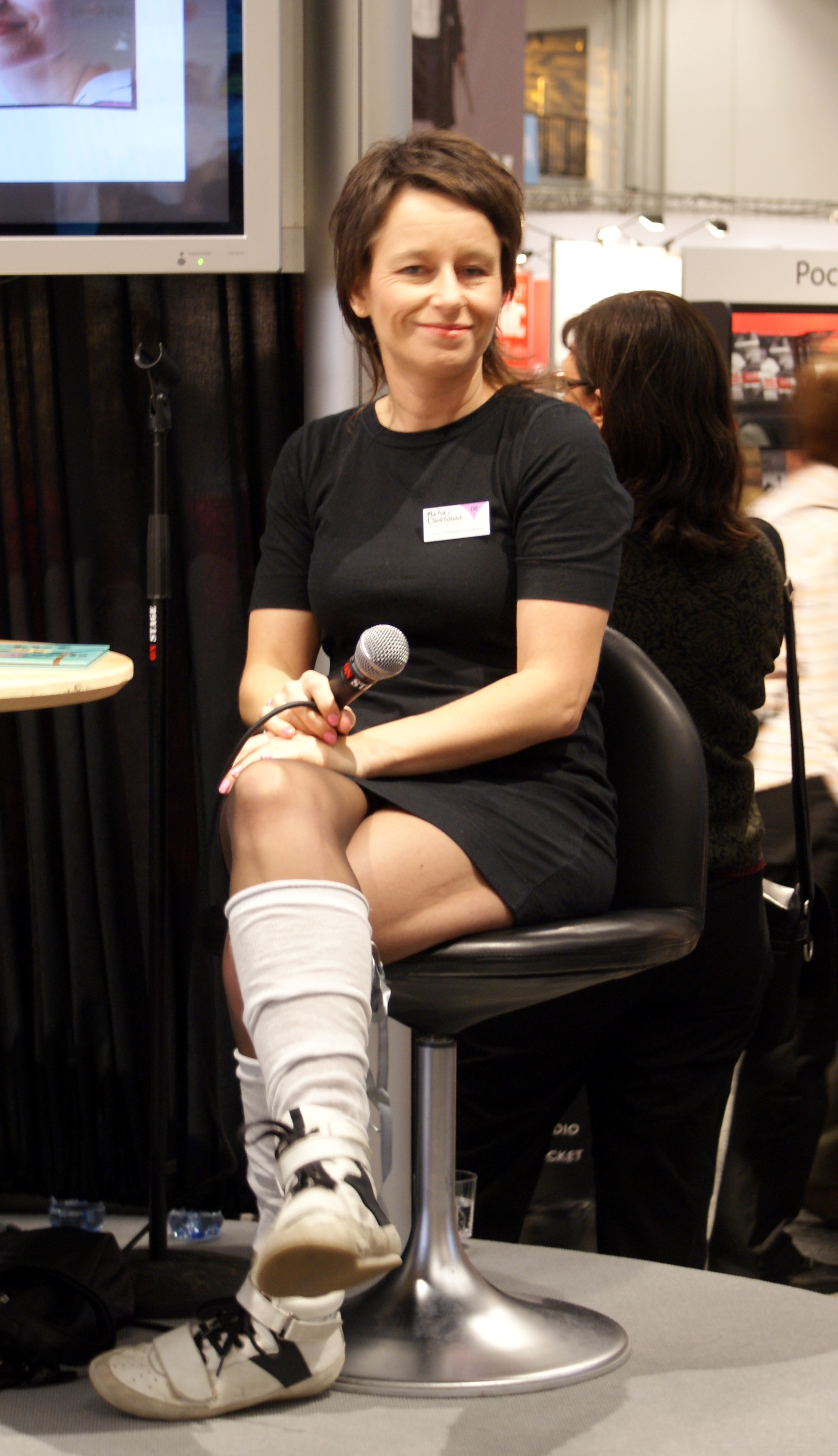 Anna Charlotta Gunnarson, Swedish journalist.